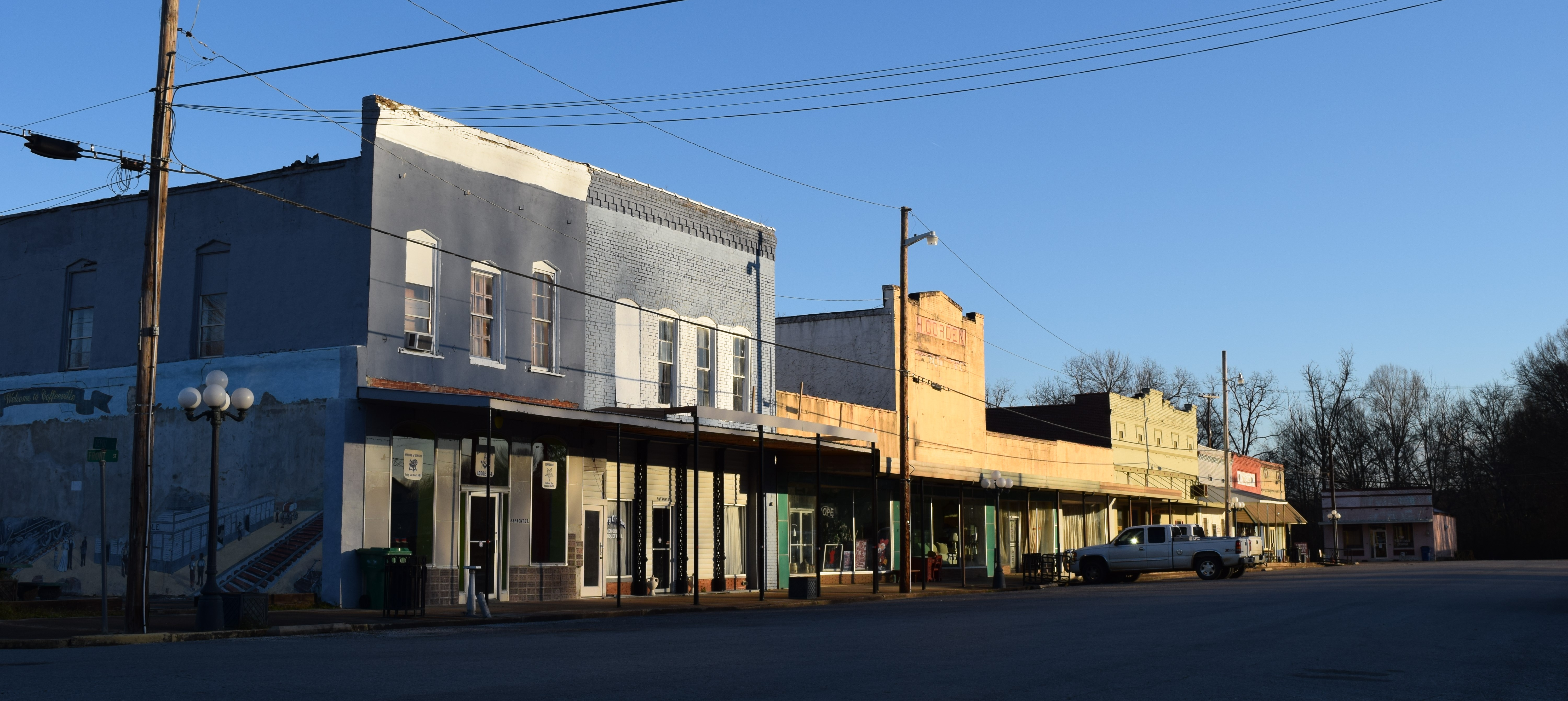 Buildings along Front Street in downtown Coffeeville, Mississippi